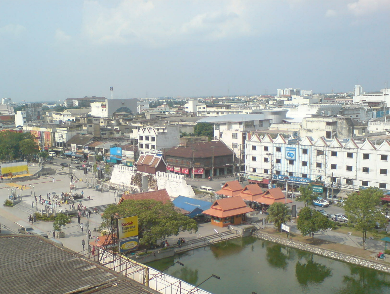 Yamo, Chomphon Gate and environs. The Thao Suranaree monument, Chomphon Gate, Chumphon Road and moat. Taken from the Klang Plaza department store, looking northeast., Nakhon Ratchasima.